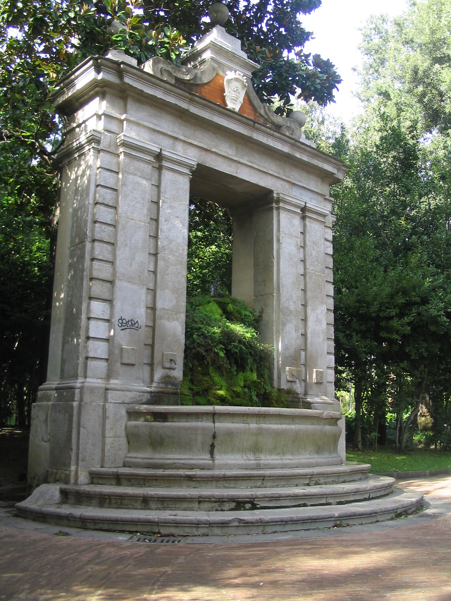 Salerno (Italy) city garde, the so-called "Don Tullio fountain" (fontana di Don Tullio)